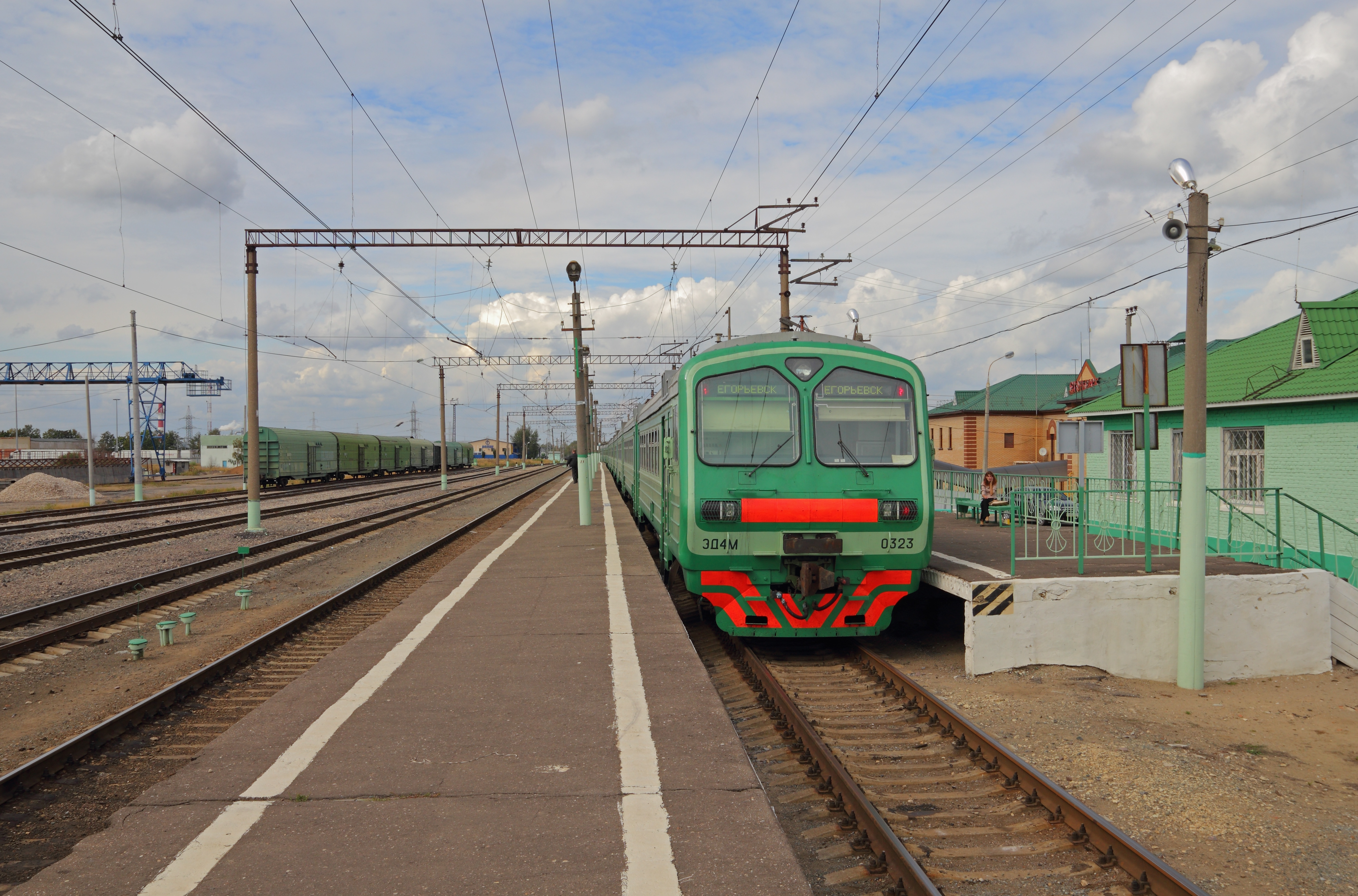 Yegorievsk, Moscow Oblast, Russia. Train station, and a ED4M train from Moscow.